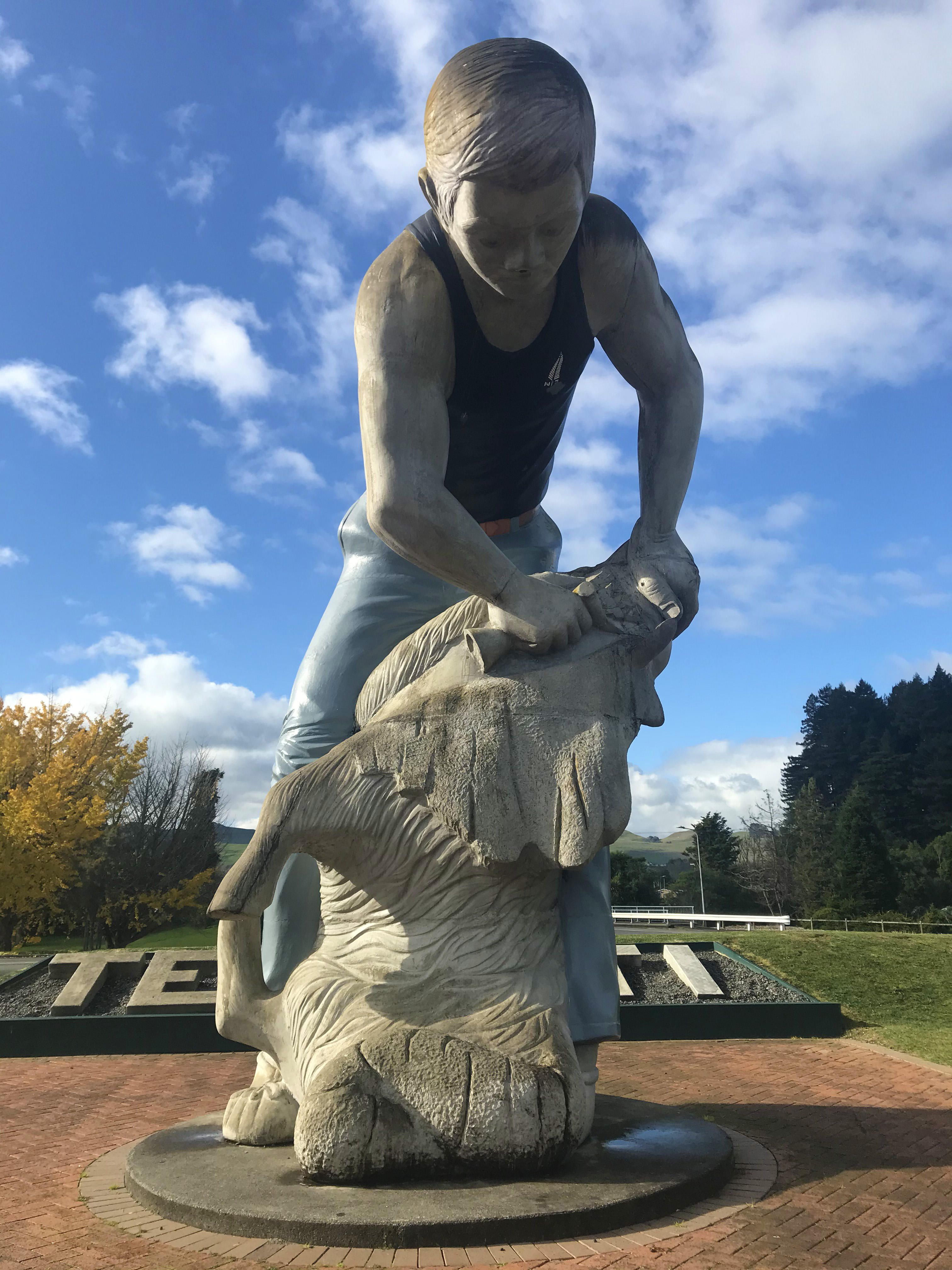 Statue celebrating the shearing industry in Te Kuiti, New Zealand